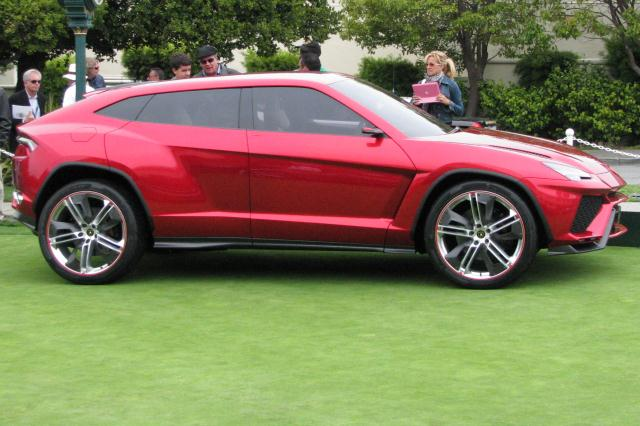 Lamborghini Urus at 2012 Pebble Beach Concours d'Elegance